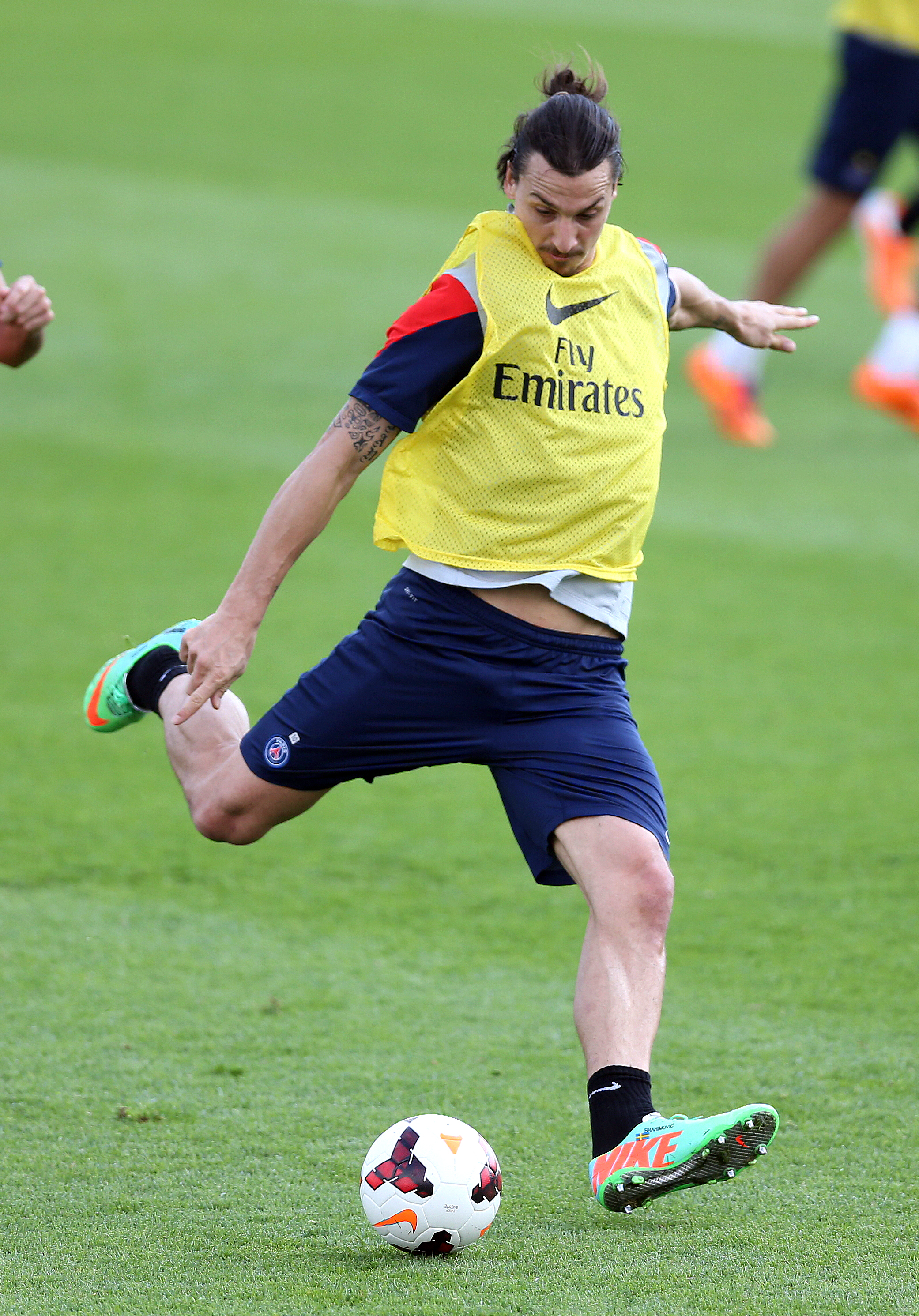 Paris Saint-Germain's Zlatan Ibrahimovic gets ready to kick a ball during a training camp in Doha. Pic by Mohan